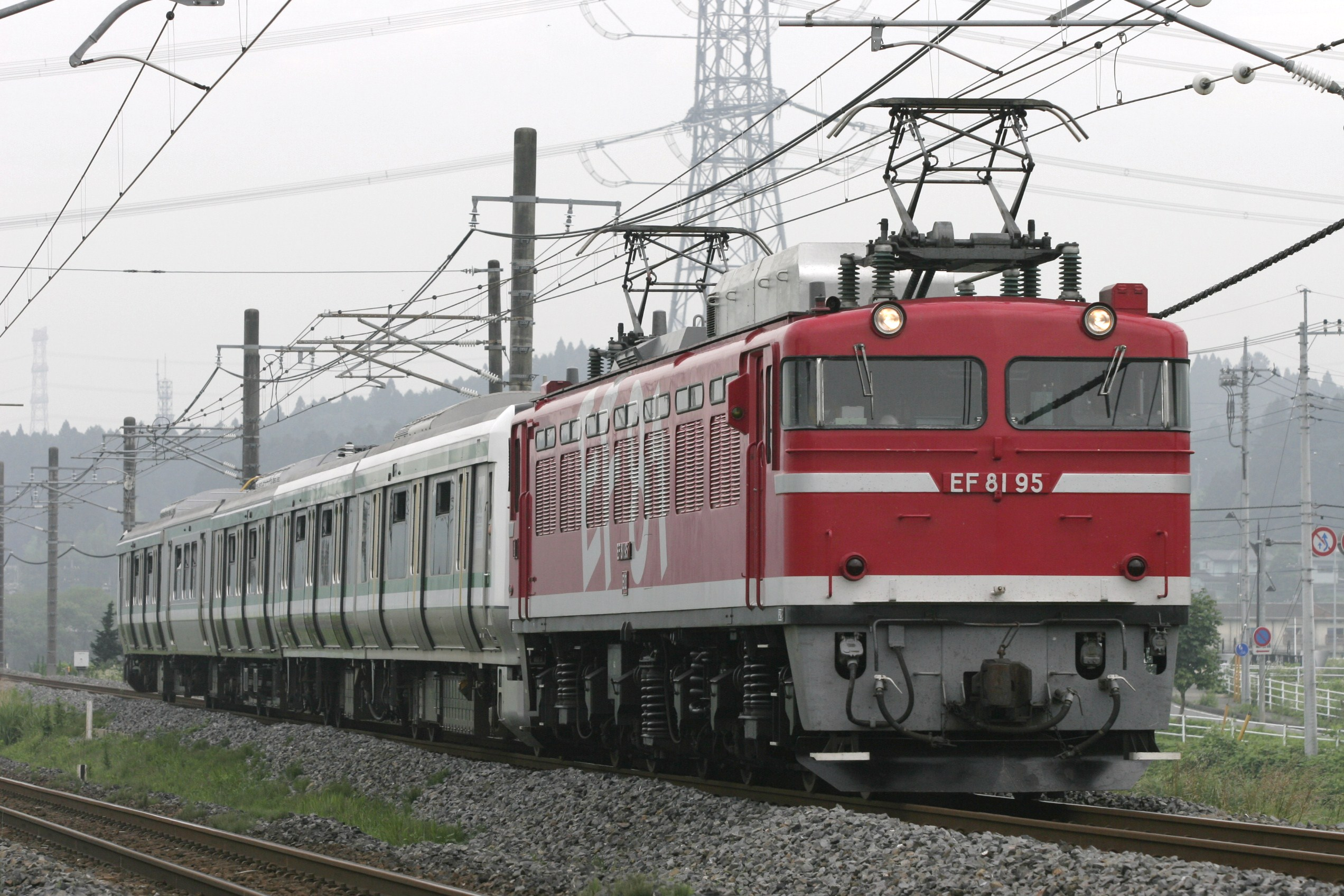 JR East E993 series "AC Train" experimental EMU being hauled by class EF81 locomotive EF81 95 from Utsunomiya to Kōriyama for scrapping